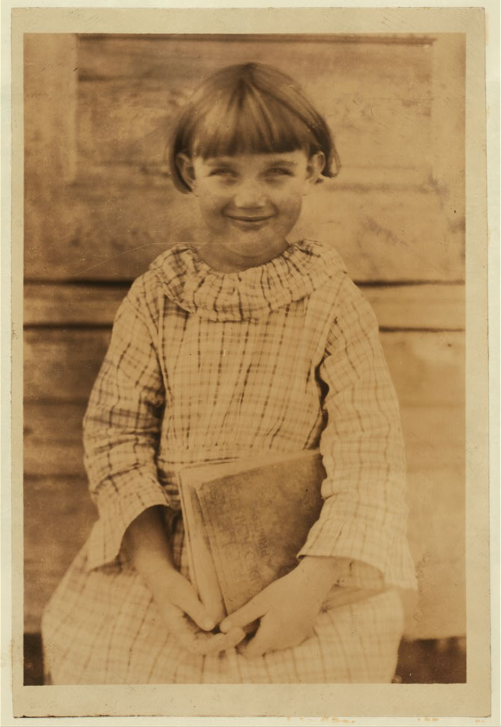 The first day at school - one of the Pocahontas Co. rural schools. Location: Pocahontas County, West Virginia / Photo. L.W. Hine.